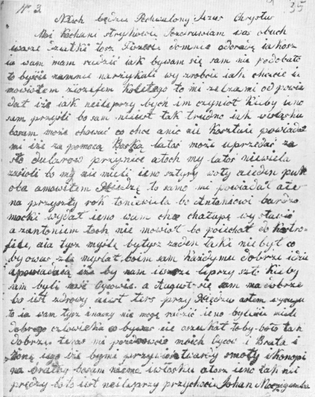 The reproduction of a letter sent from Texas to Płużnica (Poland) by a Silesian immigrant, written in the Silesian language